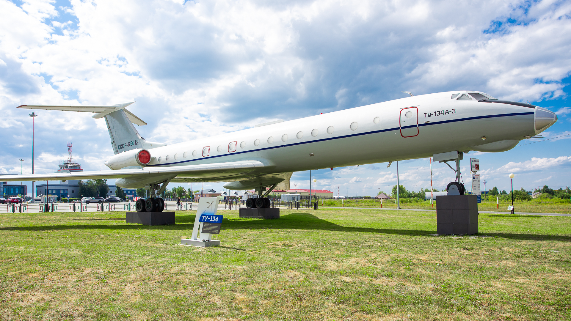 Monument Tu-134A-3 (Roshchino airport, Tyumen)